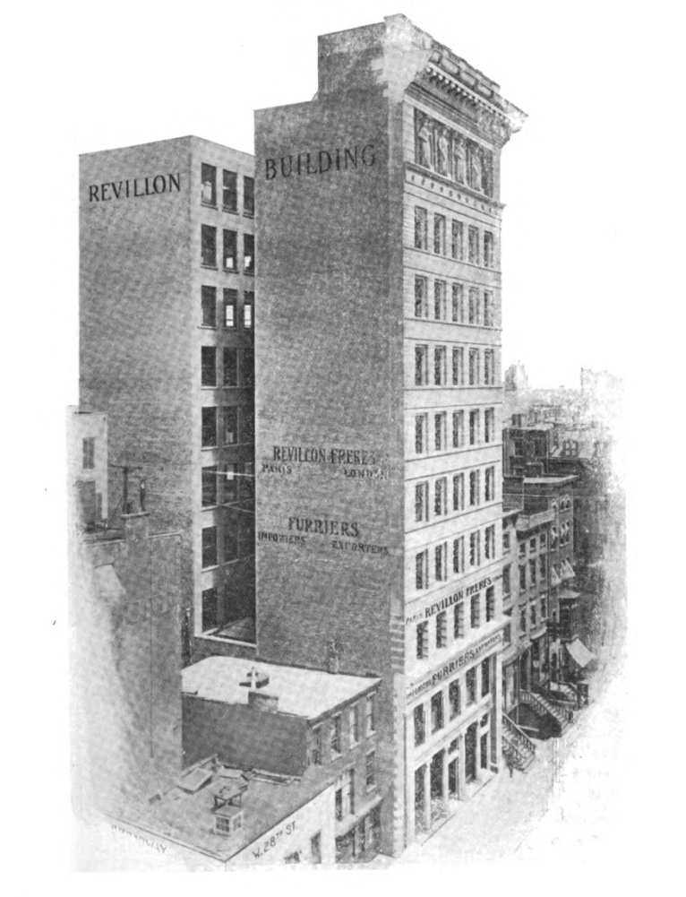 Revillon Building, Revillon Frères, wholesale furriers, cloaks and furs, 13-15 West 28th St., Manhattan (advertising 1897). Revillon Building, Revillon Frères, wholesale furriers, cloaks and furs, New York (advertising 1903.jpg 1903